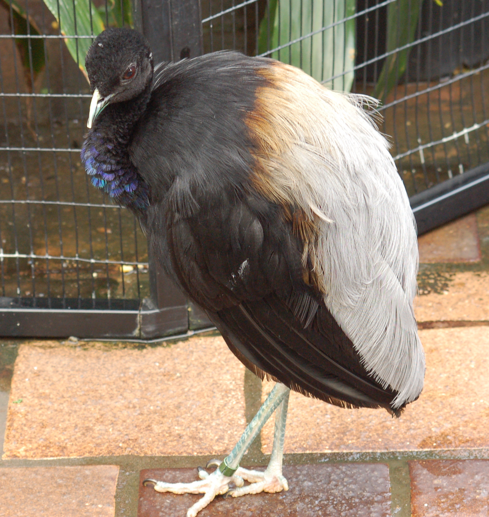 A photograph of the Grey-winged Trumpeteren (Psophia crepitans en ). Photo taken at the National Aviary.